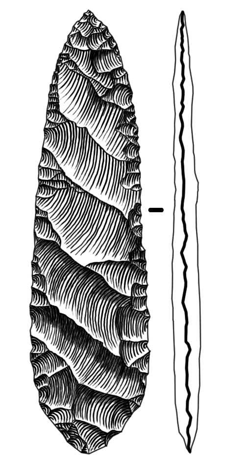 Bifacial point